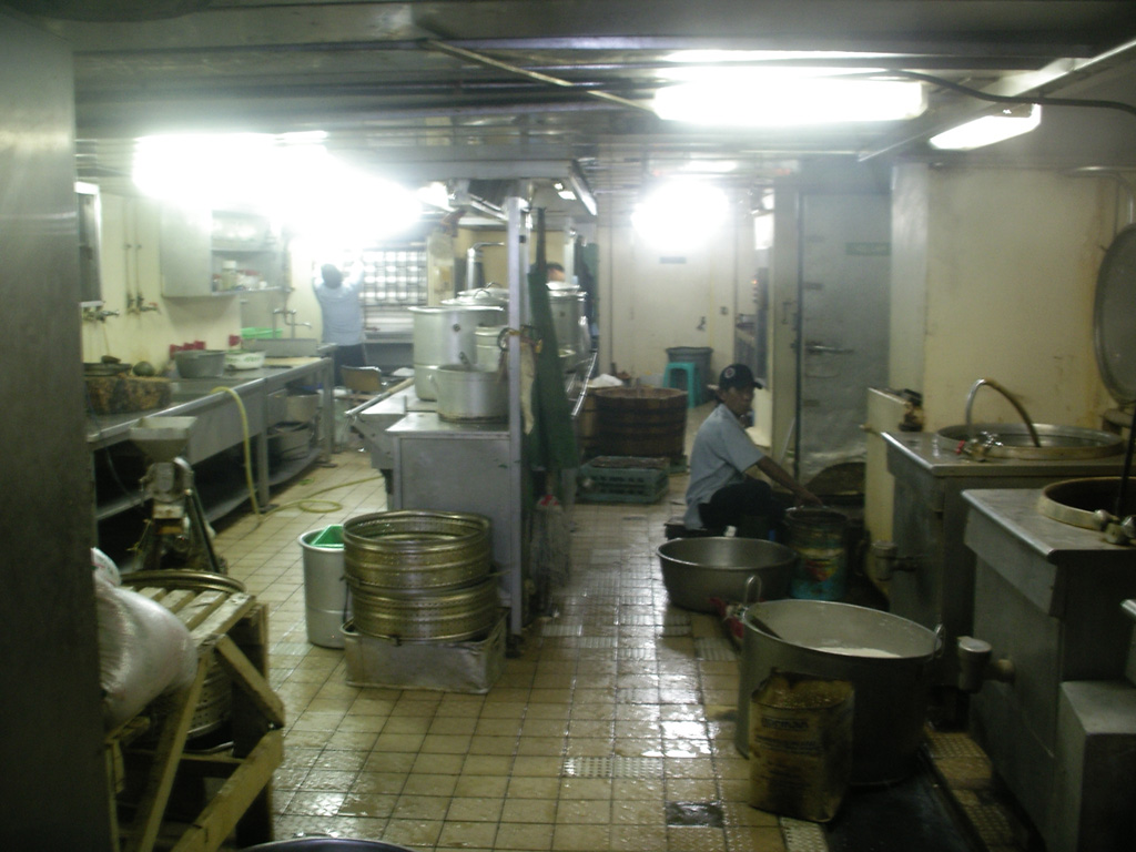 Pelni shipping (Indonesia): the kitchen of the KM Awu